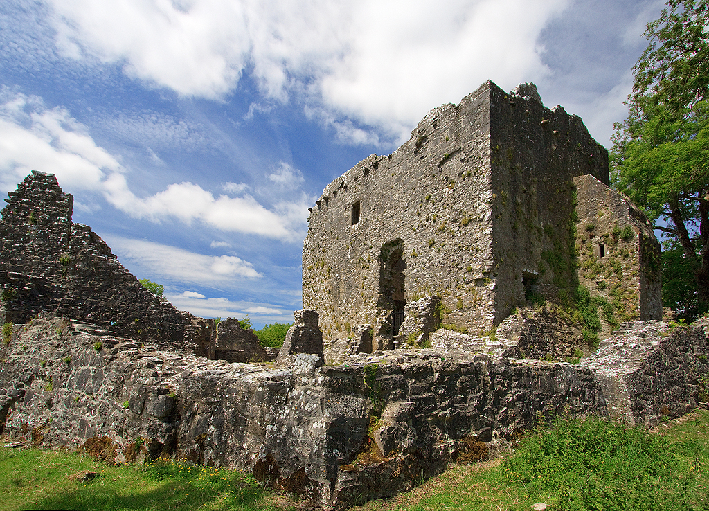 Castles of Connacht: Castle Carra, Mayo